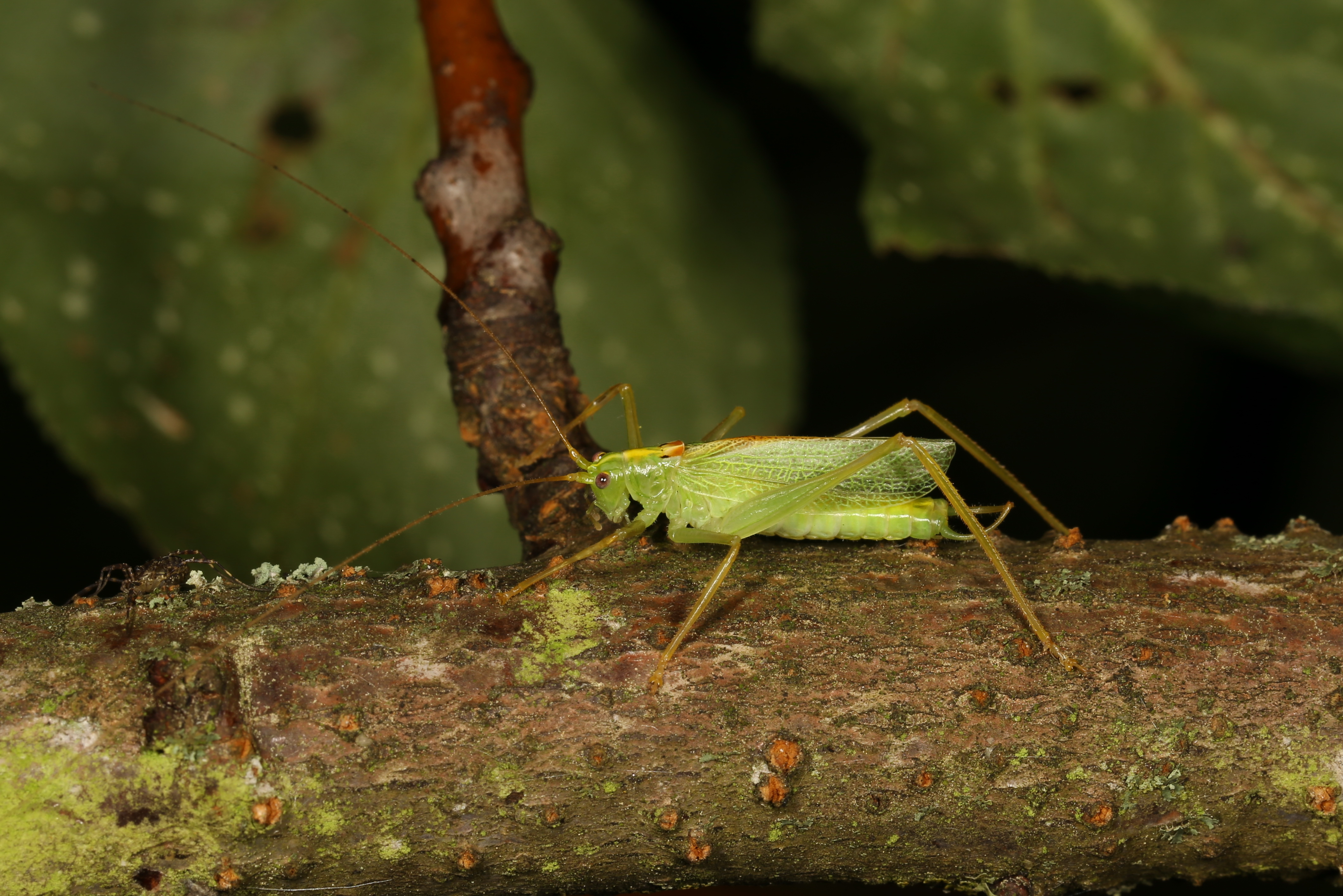 Meconema thalassinum De Geer, 1773, Søborg, Denmark, 5/6 August 2017